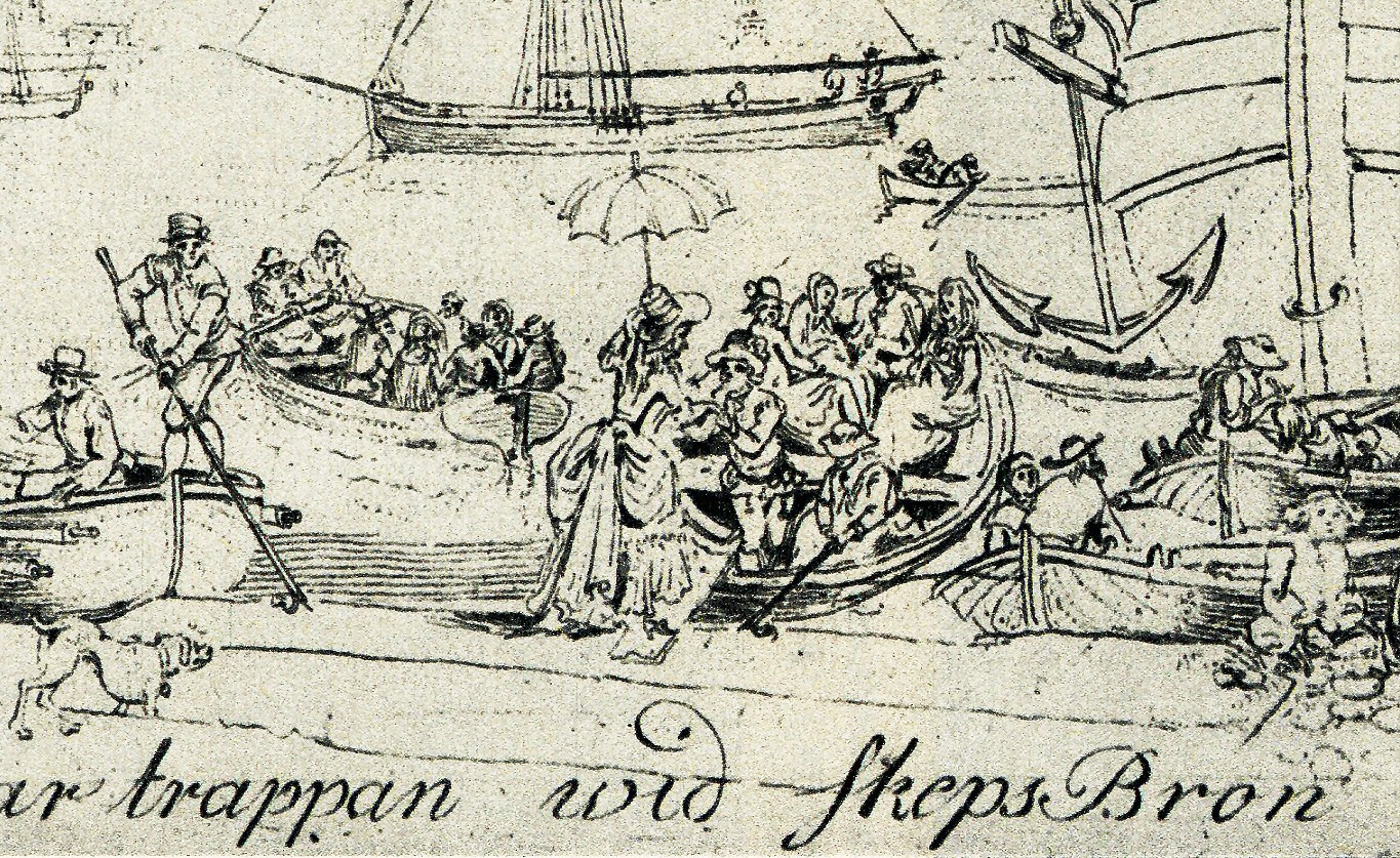 Detail from etching "The Steps on Skeppsbro", Stockholm, by Elias Martin. The central figure boarding the boat is popularly supposed to be Ulla Winblad, the semi-mythical figure of muse and prostitute in many of Carl Michael Bellman's Epistles.